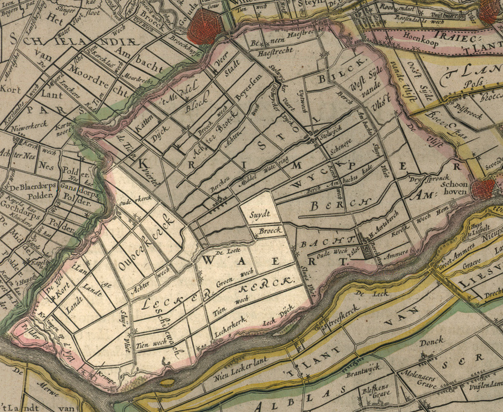 Heerlijkheid de Lek in Krimpenerwaard Polder the Netherlands, Fragment of Blaeu 1645 - Zuydhollandia stricte sumta